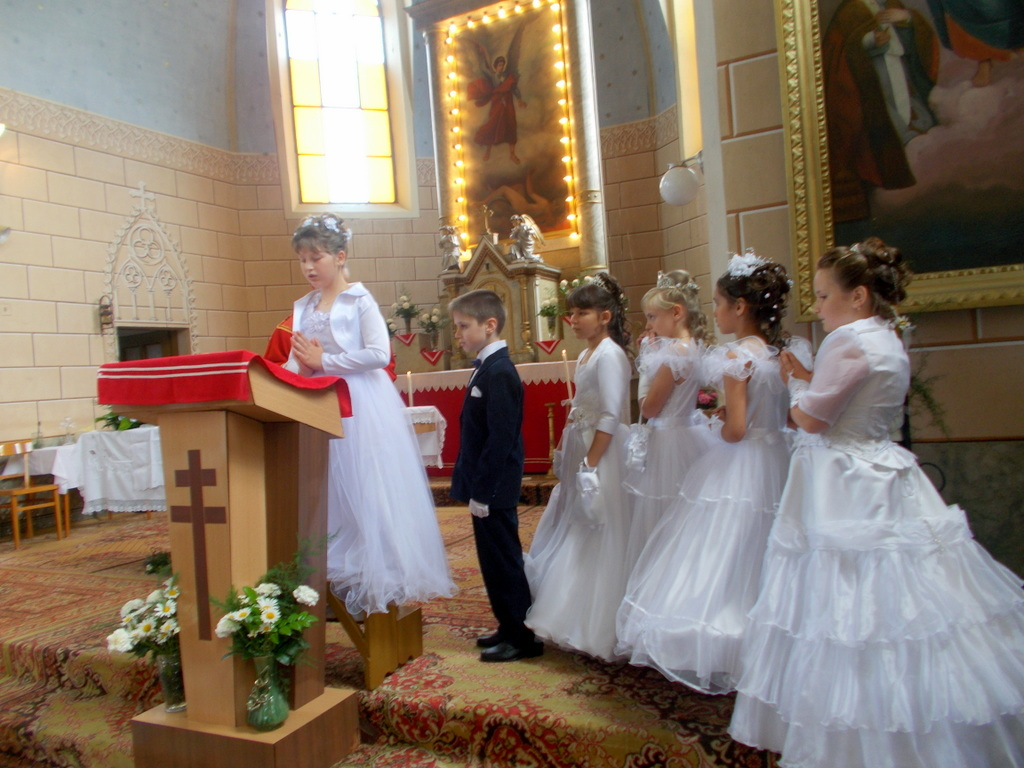 First communion in Jazovo, Vojvodina. Girl reads lesson on holy mass.